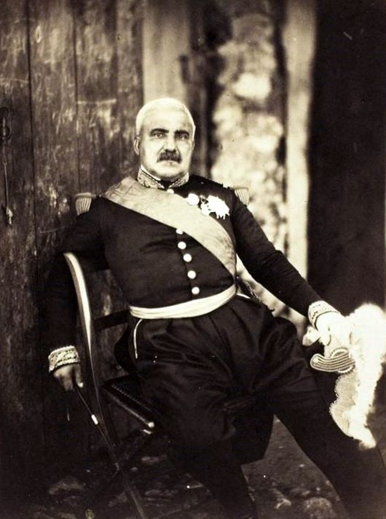 Photograph of Aimable-Jean-Jacques Pélissier, duc de Malakoff, marshal of France, full-length portrait, seated on chair, facing front, holding hat and swagger stick.